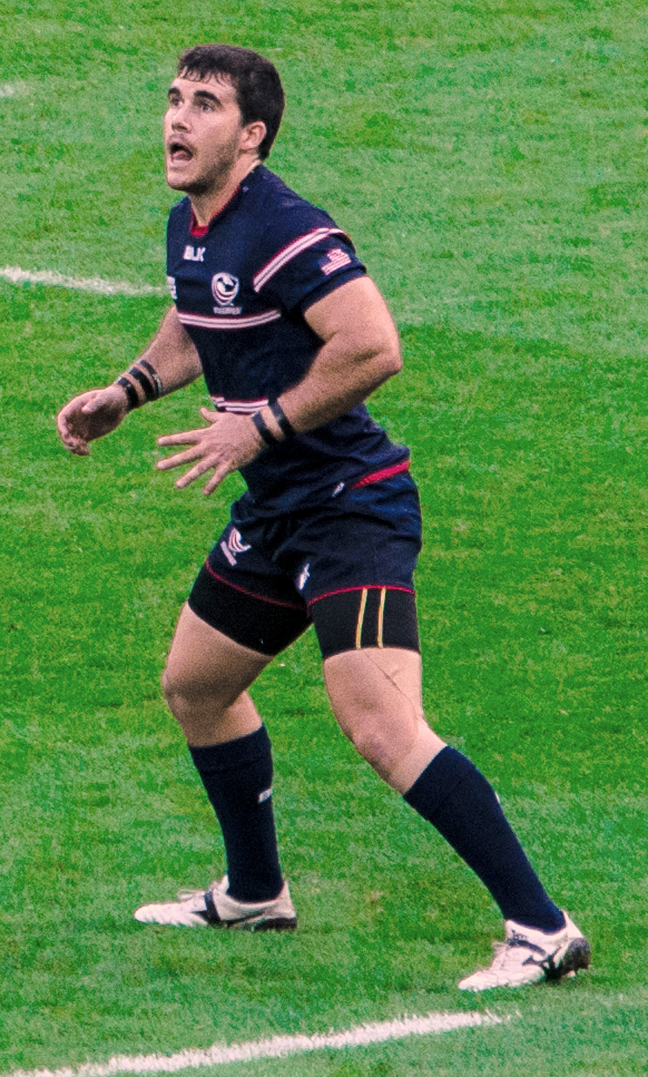 2015 Rugby World Cup game between South Africa and the United States played at the Olympic Stadium in London.